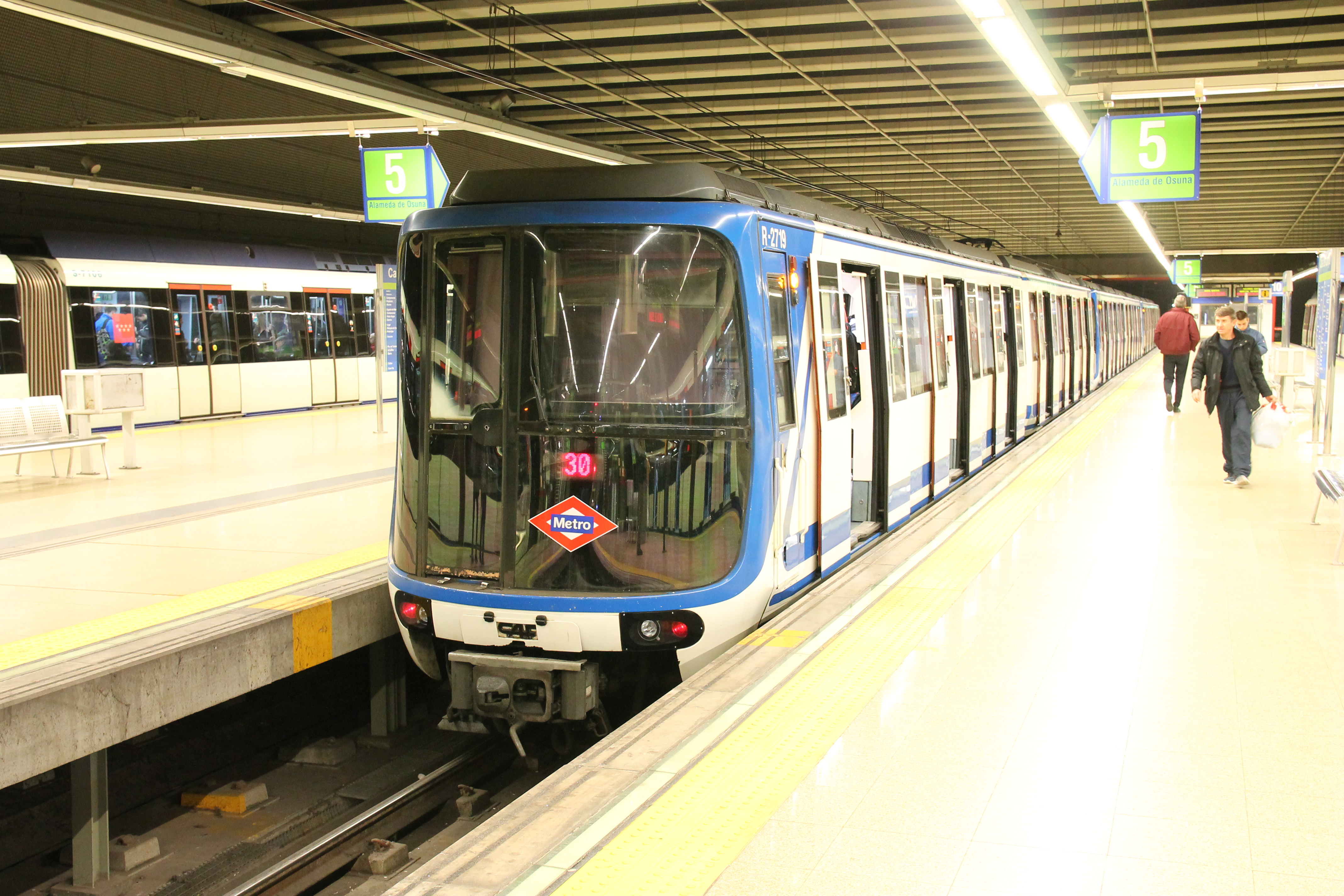 Casa de Campo metro station, Madrid